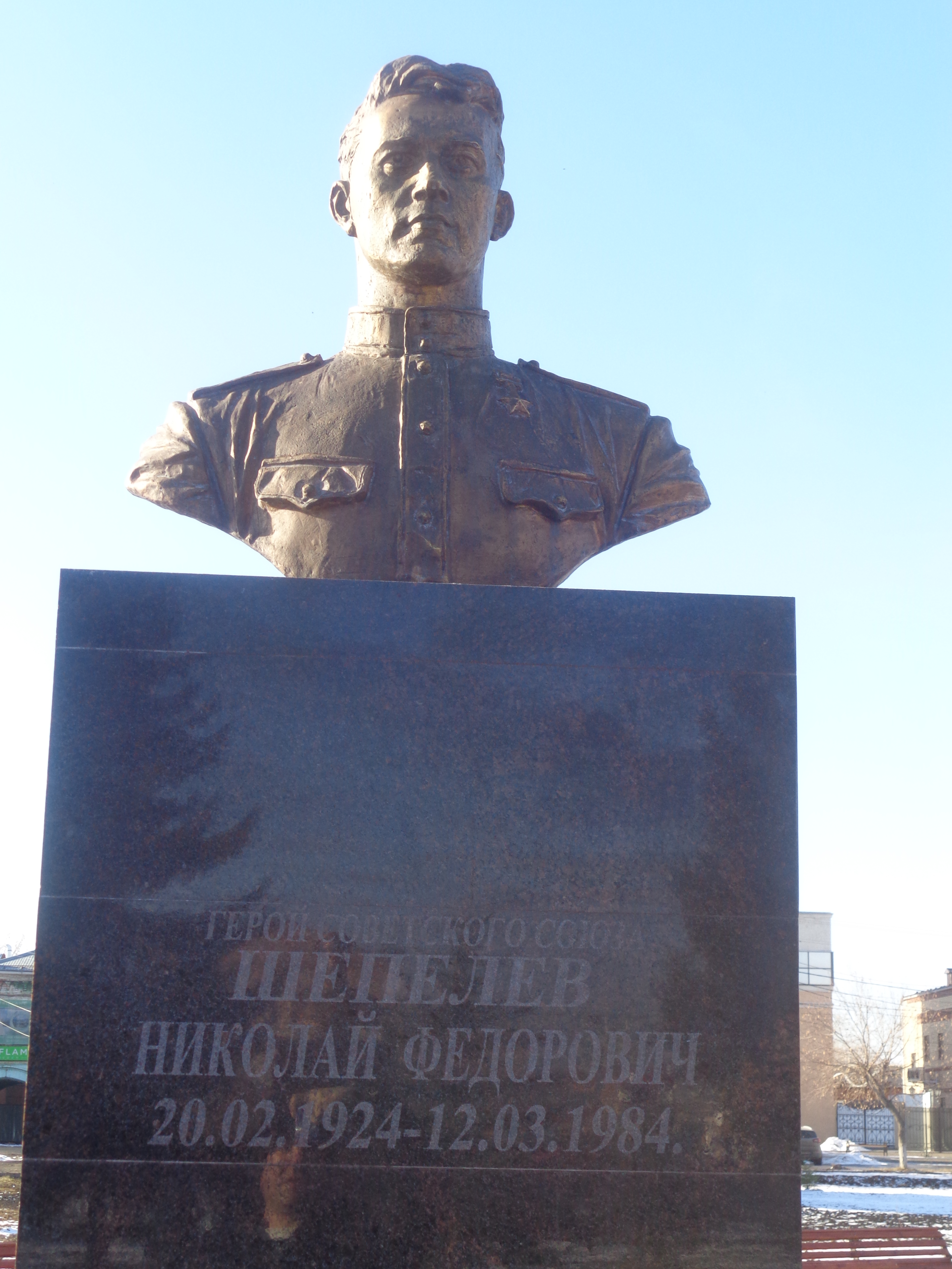 Monument to the Hero of the Soviet Union Shepelev Nikolay Fedorovich